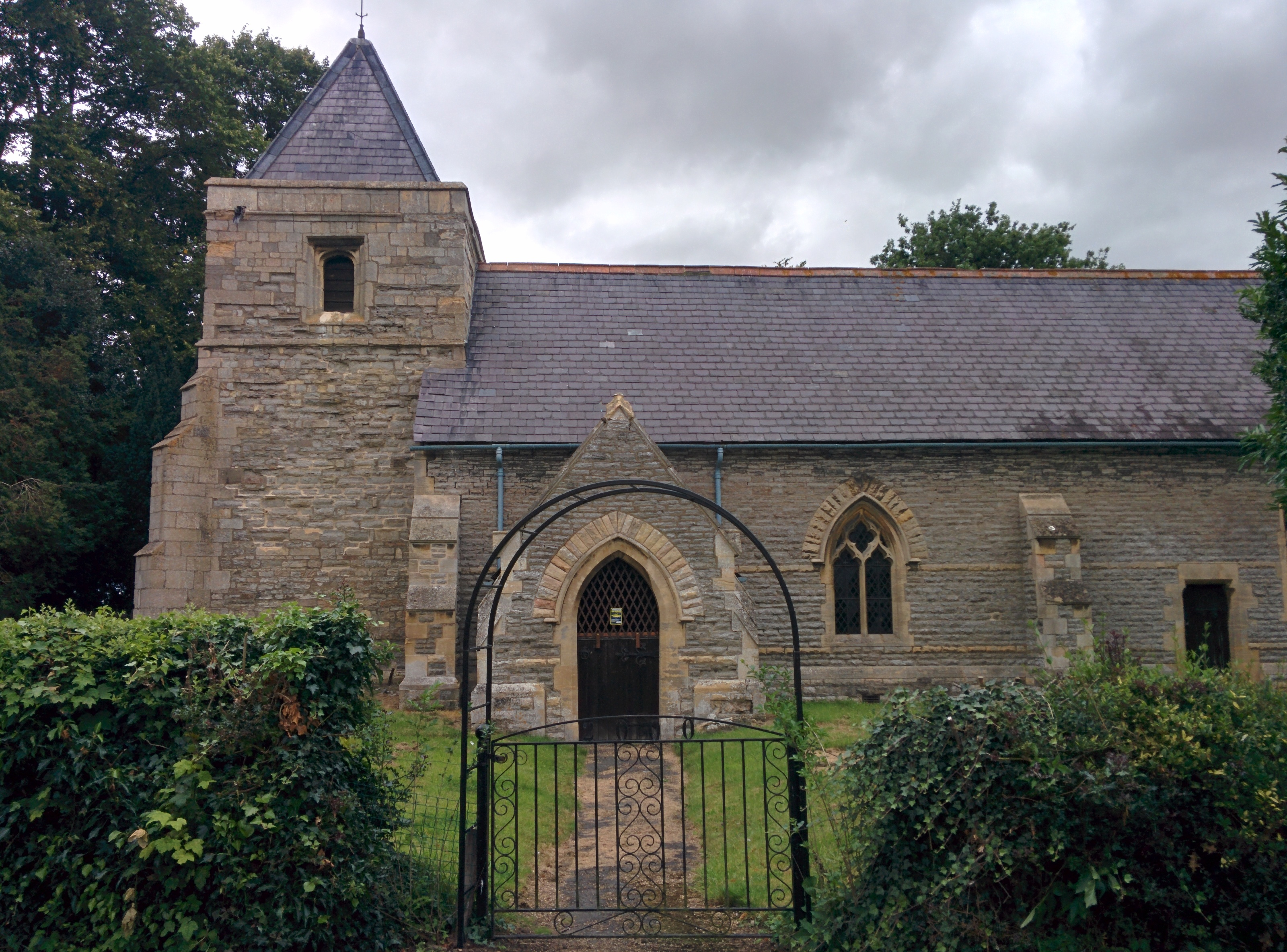 St. Lawrence's Church, Thorpe, Thorpe Nottinghamshire. Rev Charles and Lucy Townsend are buried here.